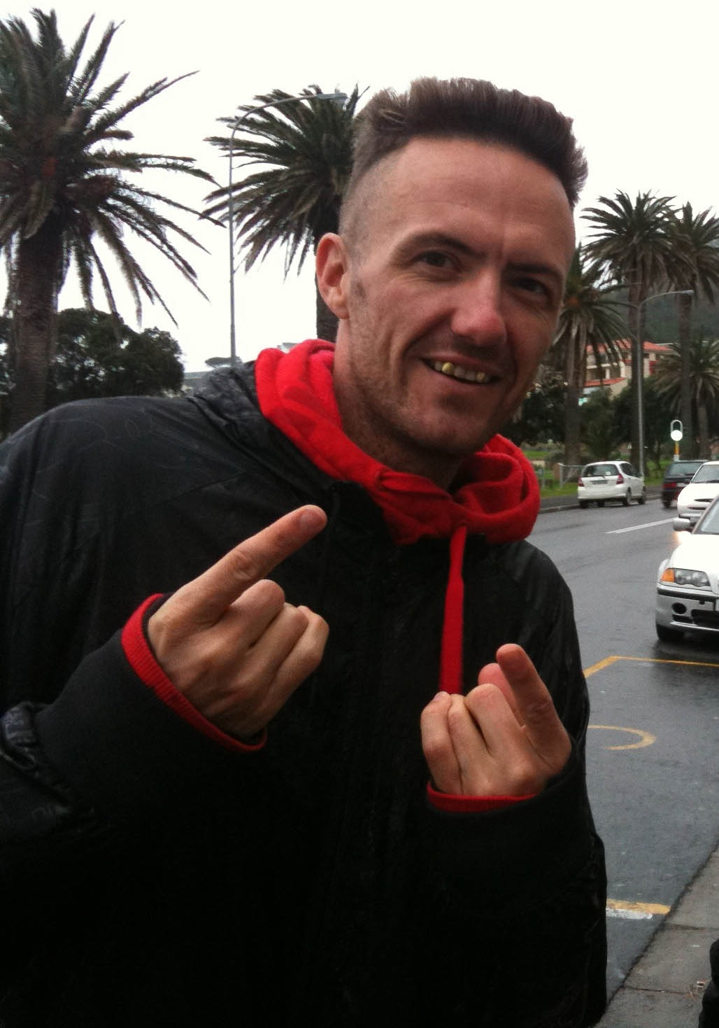 Modified from the author's original, Die Antwoord Ninja and Yolandi on the street, this is Ninja of Die Antwoord on the street.